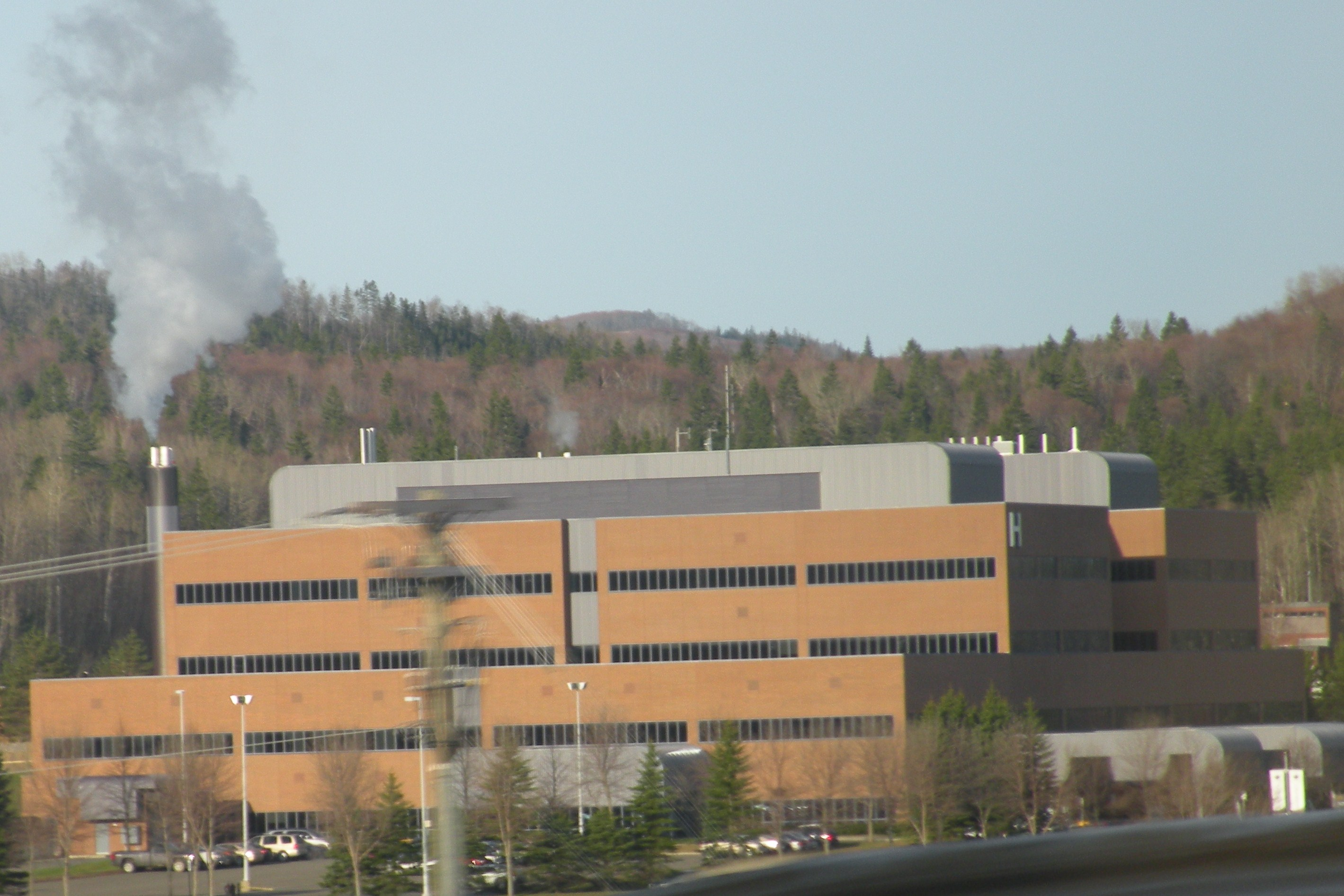 Campbellton Regional Hospital in Campbellton, New Brunswick, Canada.